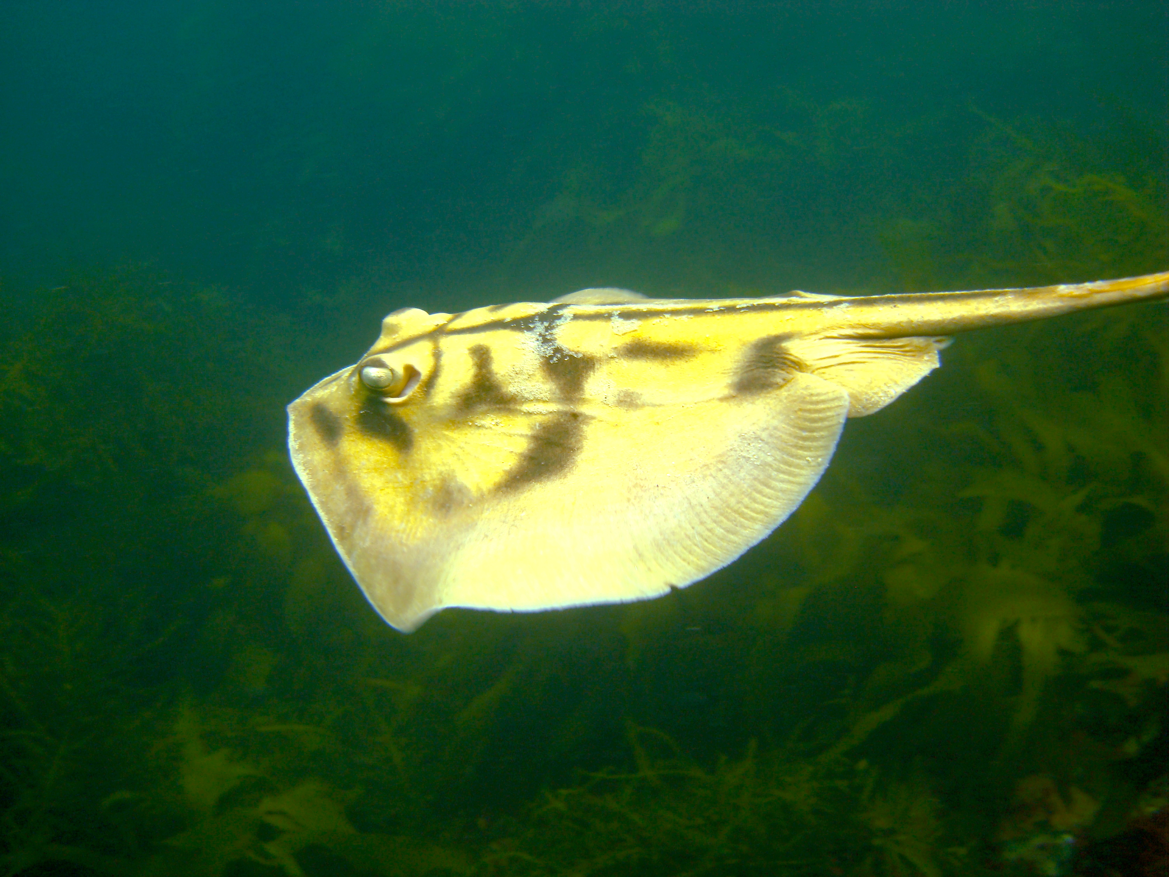 Banded stingaree (Urolophus cruciatus) at the Bicheno Dive Centre, Tasmania